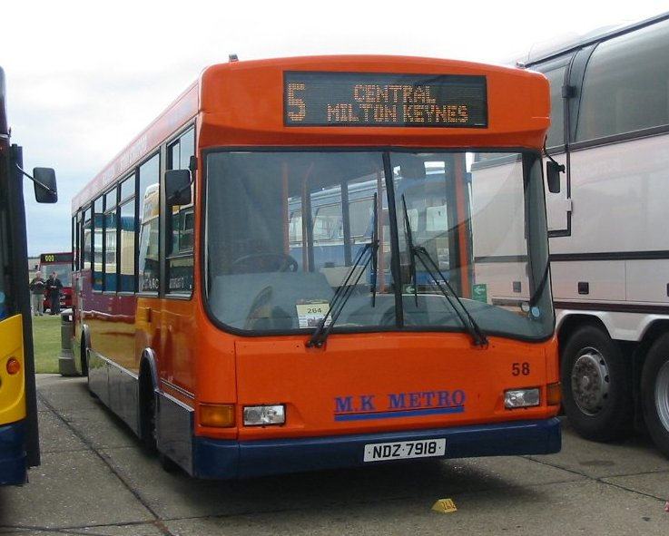 An MK Metro bus at Showbus 2004 at Duxford Imperial War Museum. It is a Dennis Dart SLF with Caetano Compass body, registration mark NDZ 7918, fleet number 58. It moved to Arriva Guildford & West Surrey in August 2009, as seen in File:Arriva Guildford & West Surrey 3113 NDZ 7918 2.JPG. Arriva Shires & Essex acquired MK Metro in 2006. In August 2012 this bus caught fire in Guildford and was withdrawn.